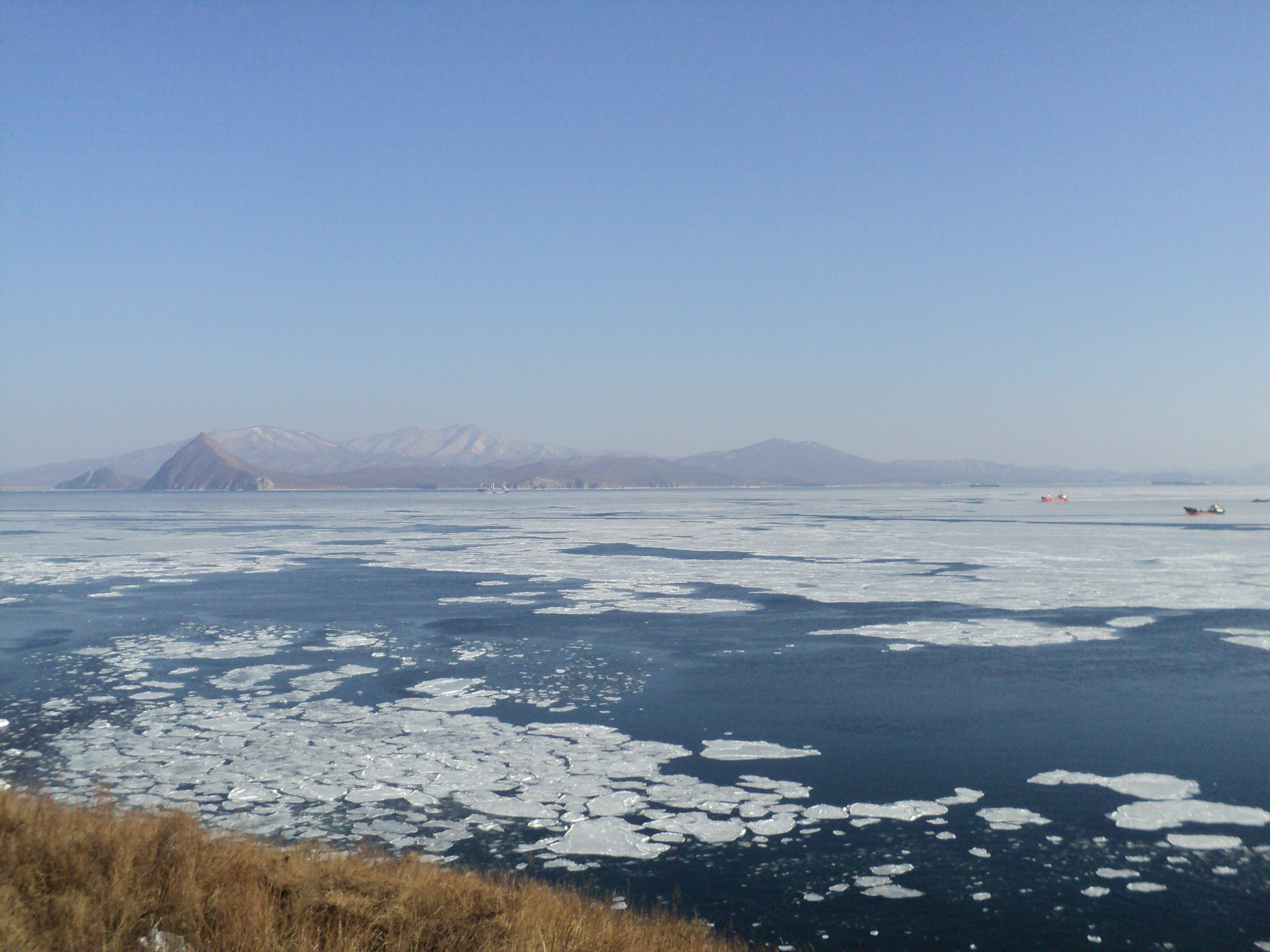 Nakhodka Bay from Astafyeva Cape